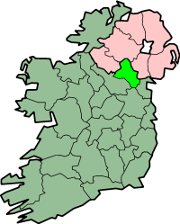 map of County Monaghan, Ireland 08:06, 5 February 2004 Morwen 200x249 (30625 bytes) (map)